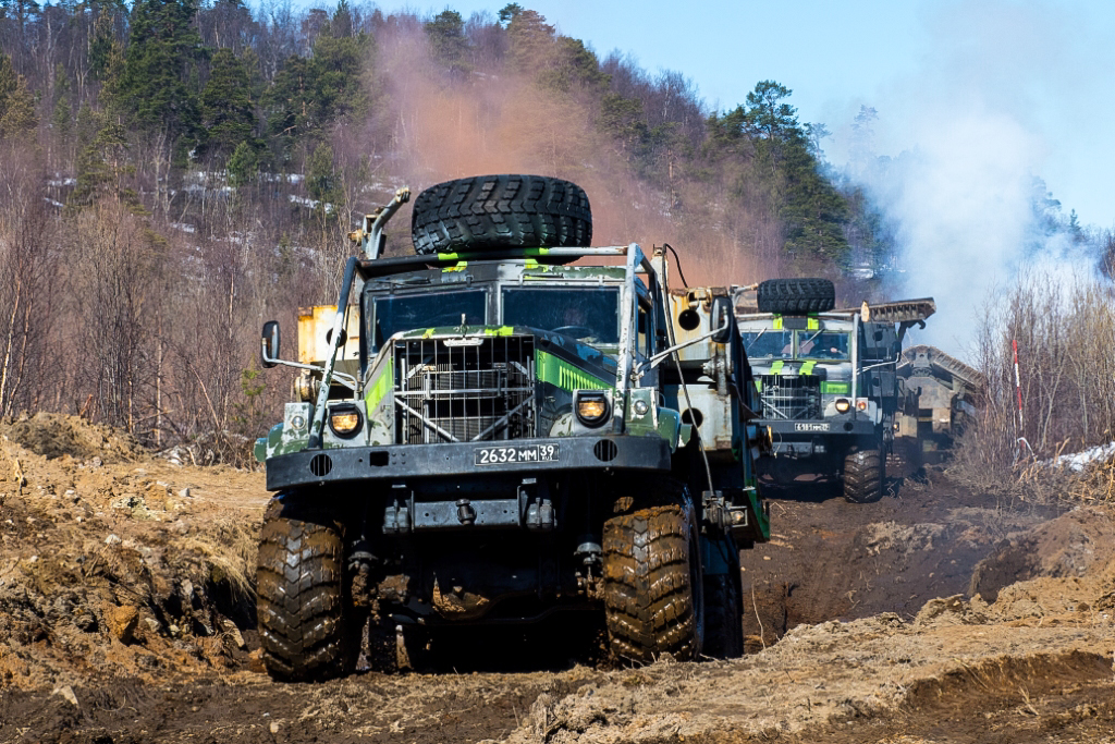 TMM-3 bridgelayer.